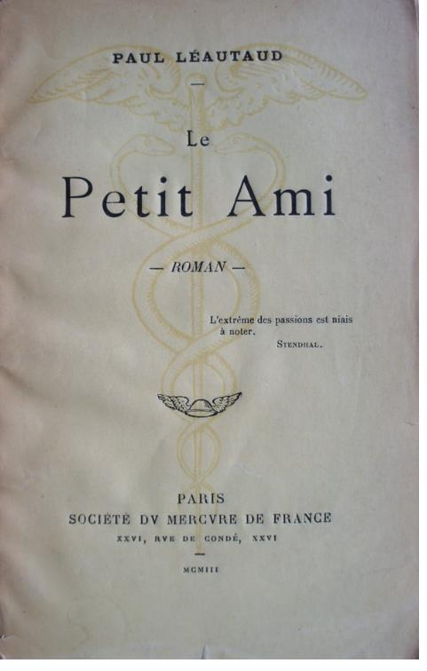 Paul Leautaud First book cover 1903